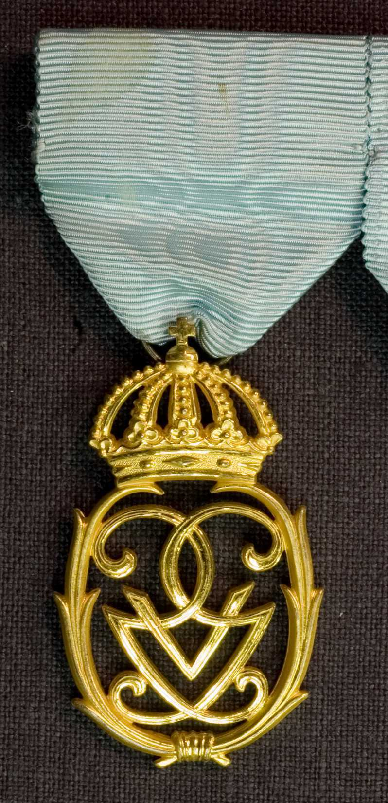 Swedish commemorative medal on the occasion of HM King Gustav V's 90th birthday, 16. juni 1948.